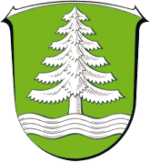 Coat of Arms of Waldems